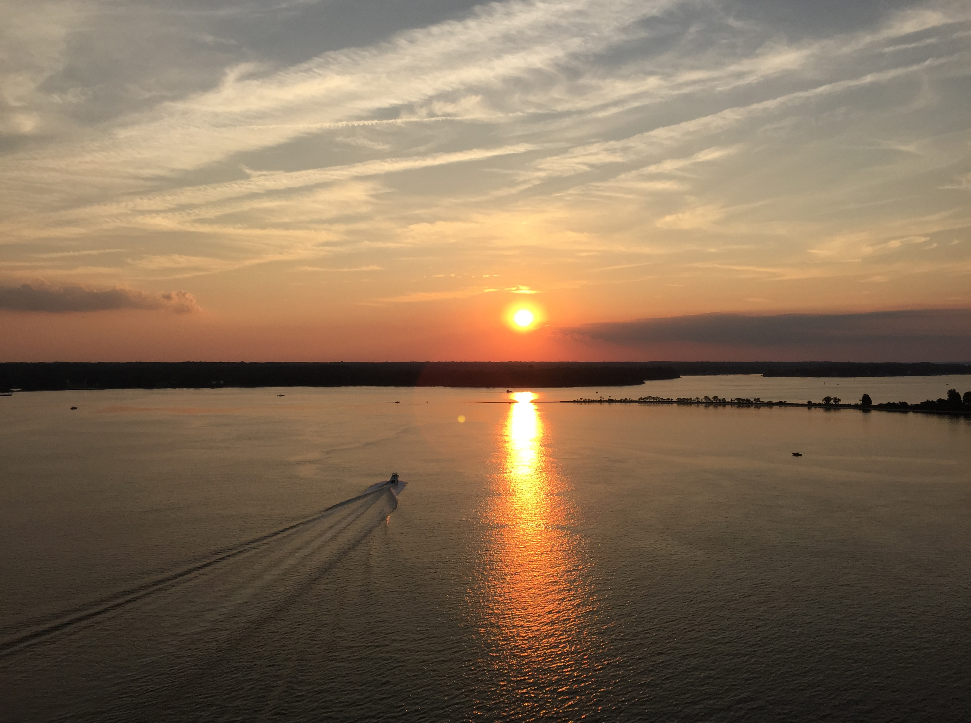 View northwest up the Patuxent River from the Governor Thomas Johnson Bridge (Maryland State Route 4) along the border of Solomons, Calvert County, Maryland and California, St. Mary's County, Maryland just before sunset